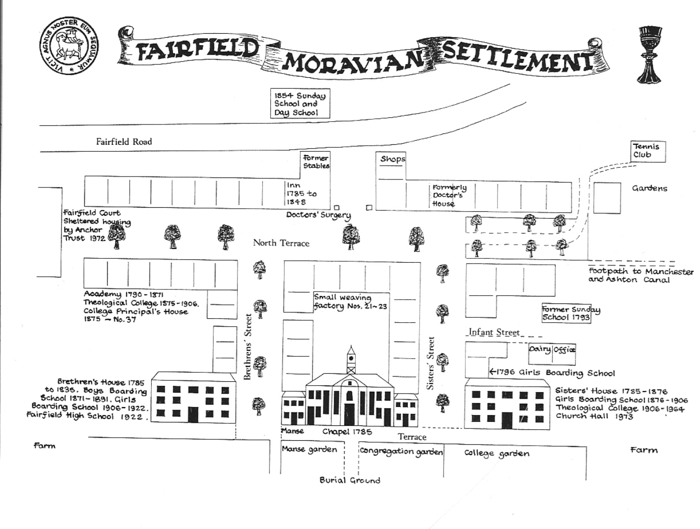 Scanned from text and cropped